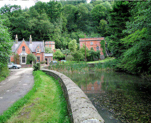 Estate Houses by Poundley and Walker at Leighton, Powys